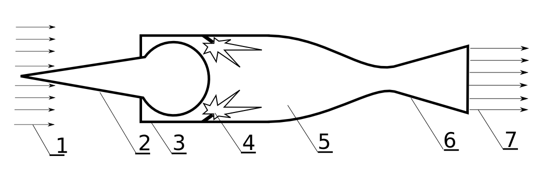 Sheme of operation of ram jet engine